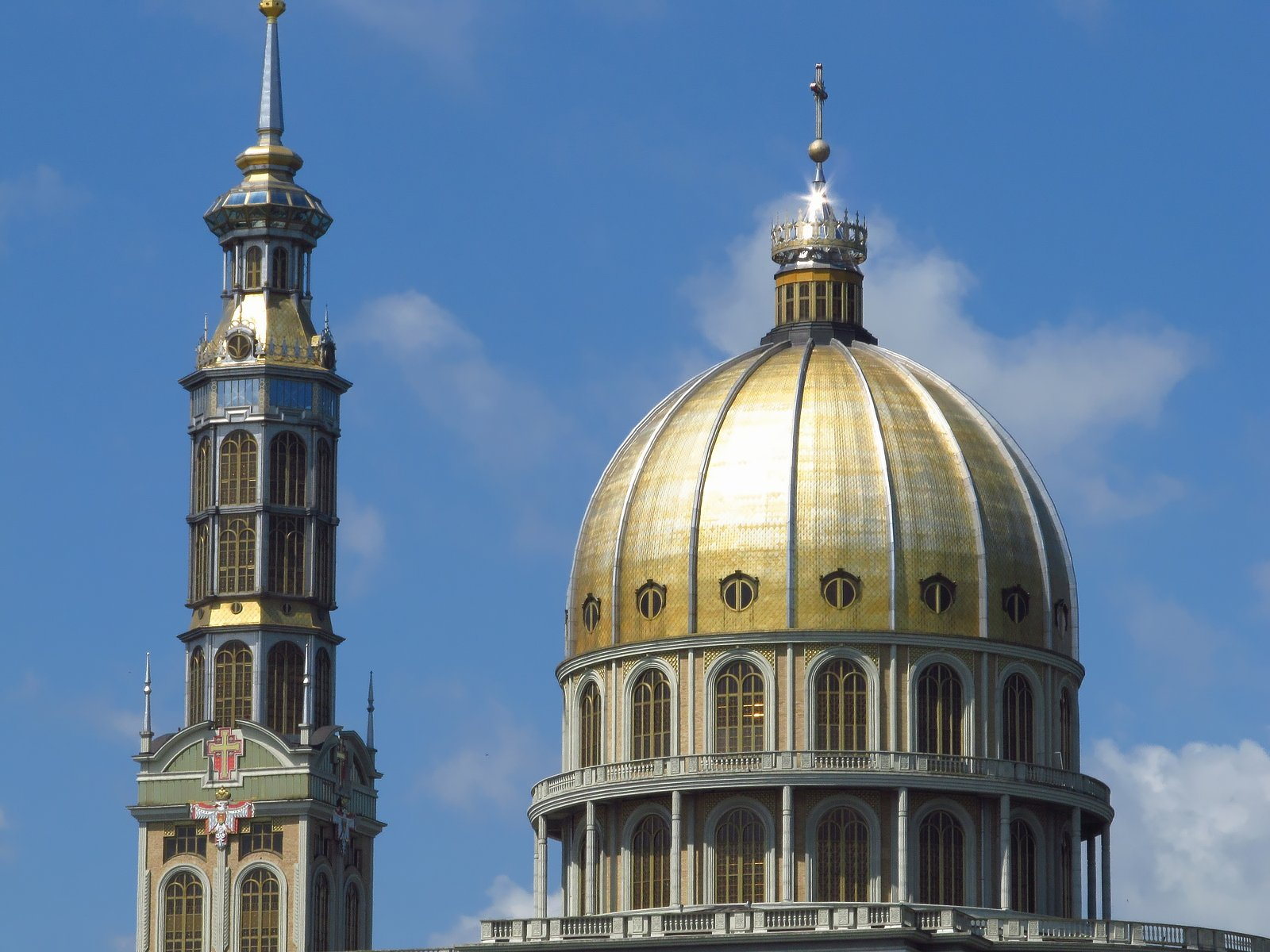 The dome and tower of the Basilica of the Blessed Virgin Mary of Lichen